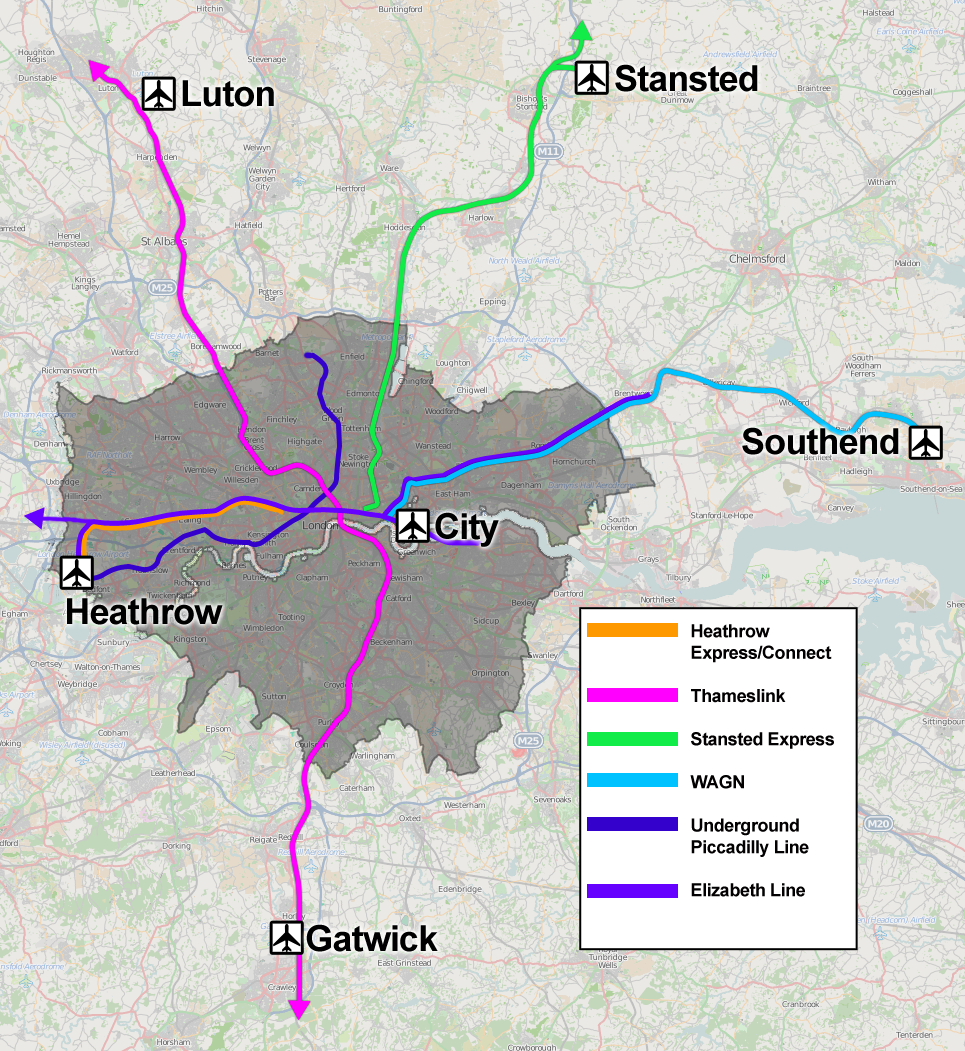 Map of the rail connections to London airports, showing Thameslink, Abellio Greater Anglia, Stansted Express, Heathrow Express, Heathrow Connect and Crossrail (due 2018). Note that London City is also served by the DLR, since 2005 This map may be incomplete, and may contain errors. Don't rely solely on it for navigation.